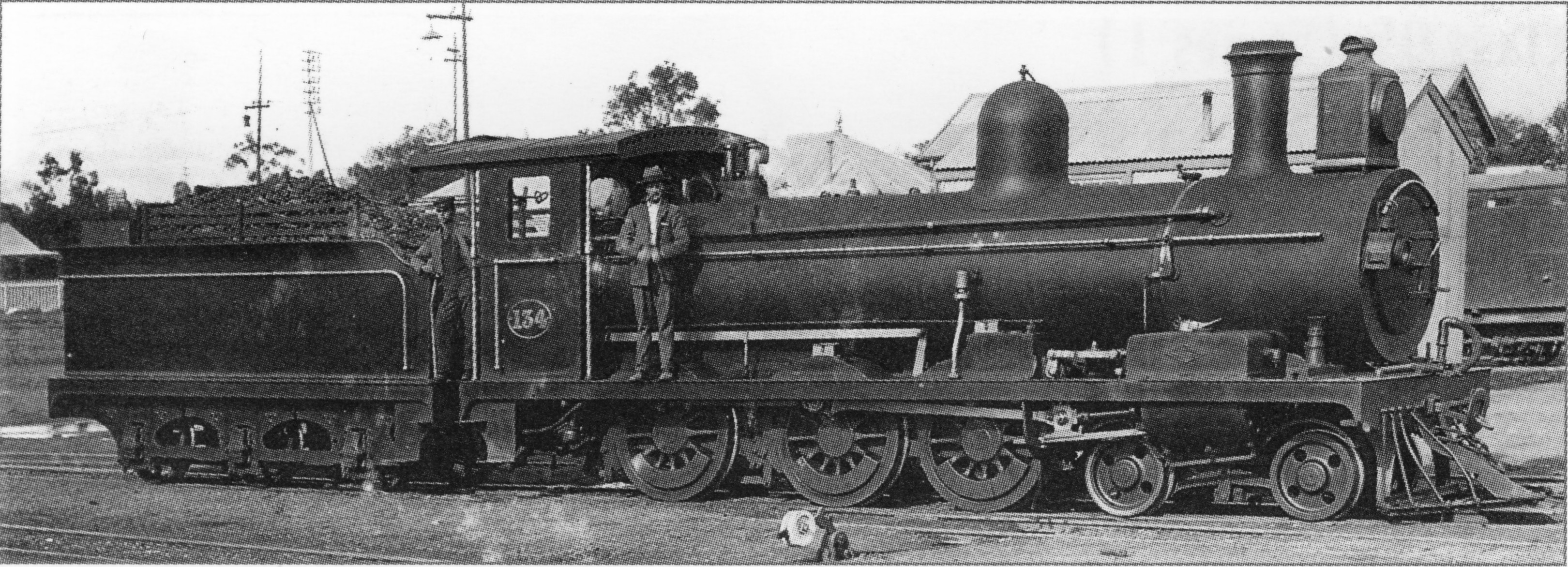 Cape Government Railways 5th Class 4-6-0 no. 134, then SAR no. 0134, with extended smokebox